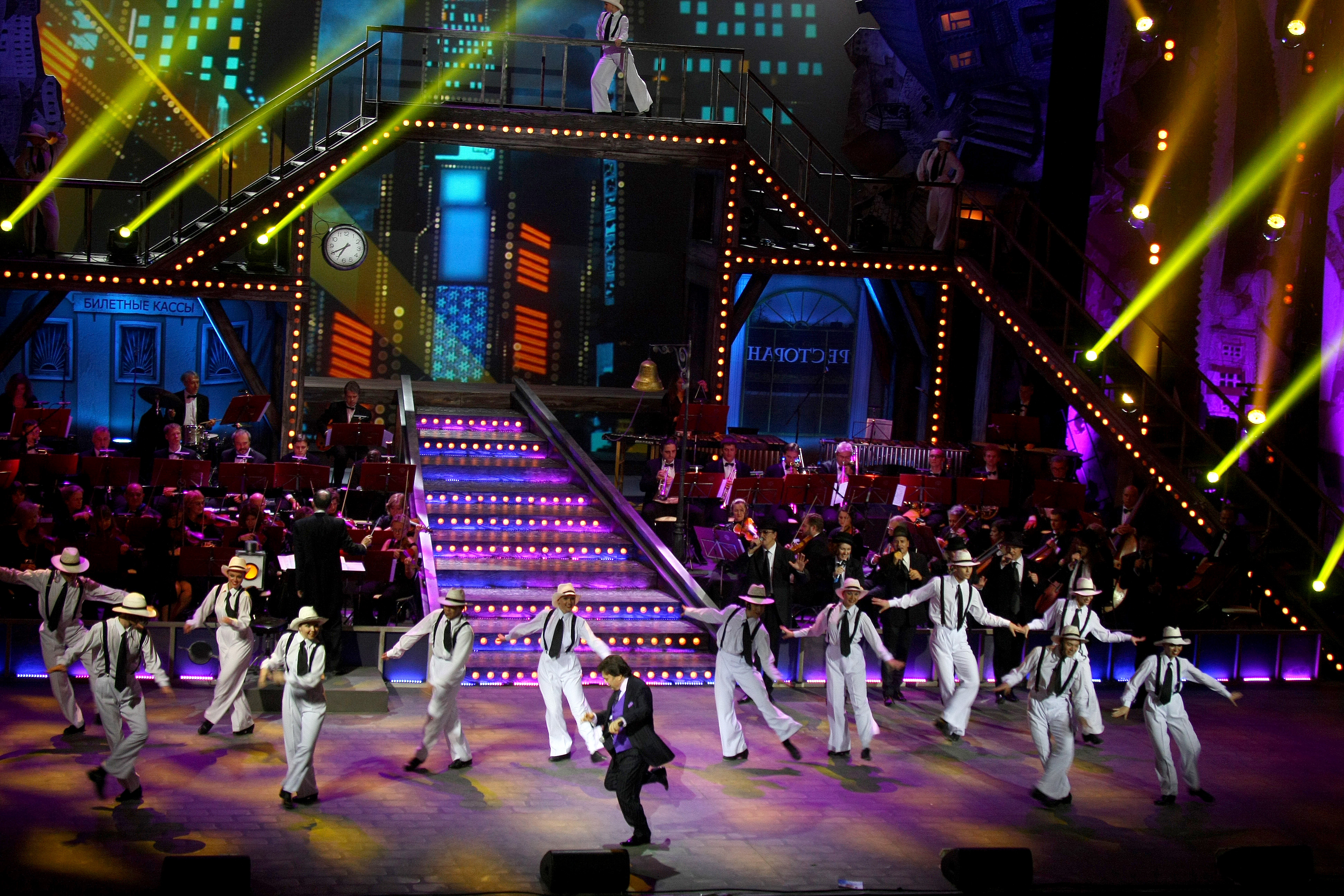 The anniversary concert "Songs of the Jewish shtetl" Efim Alexandrov 2011. Moscow. Moscow Art Theatre. Gorky.